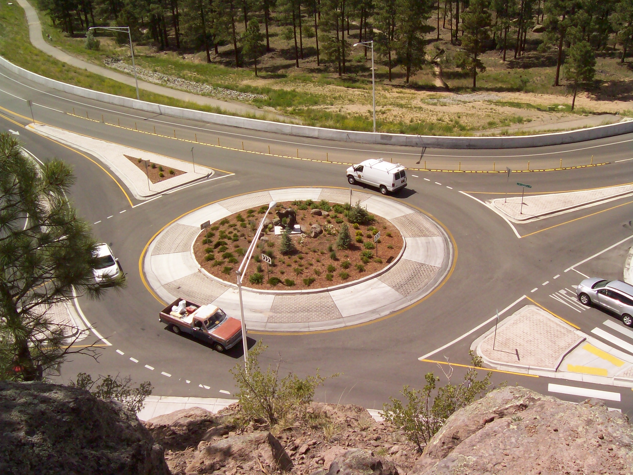 Modern roundabout at a 4-way intersection (Diamond Drive, North San Ildefonso Road, North Road, and South San Ildefonso Road) in Los Alamos, New Mexico. This intersection formerly was controlled by 4-way stop signage. As of March 2009, the roundabout handles a weekday traffic volume of 10,400 vehicles.[1]